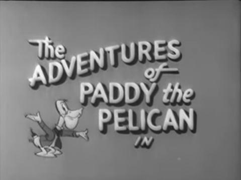 Ha, ha, ha ha ha ha haha ha ha ha! Ha ha ha ha haha ha ha ha! Ha ha ha ha haha ha ha ha! Haha ha! Hi there, boys and girls.